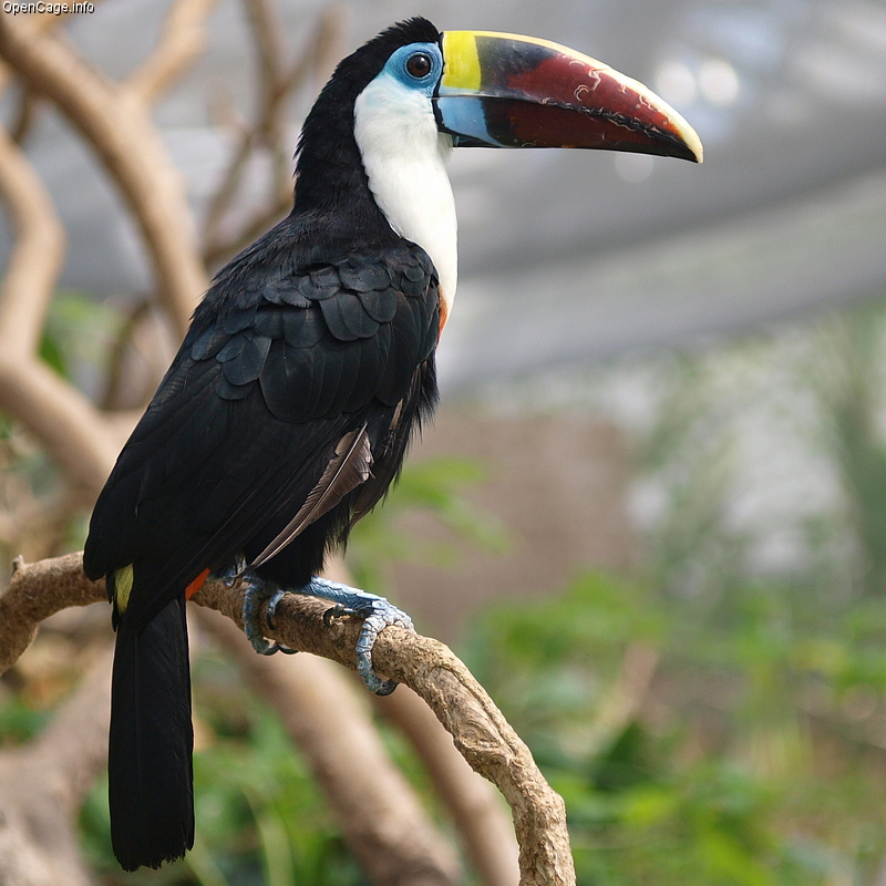 ramphastos tucanus tucanus